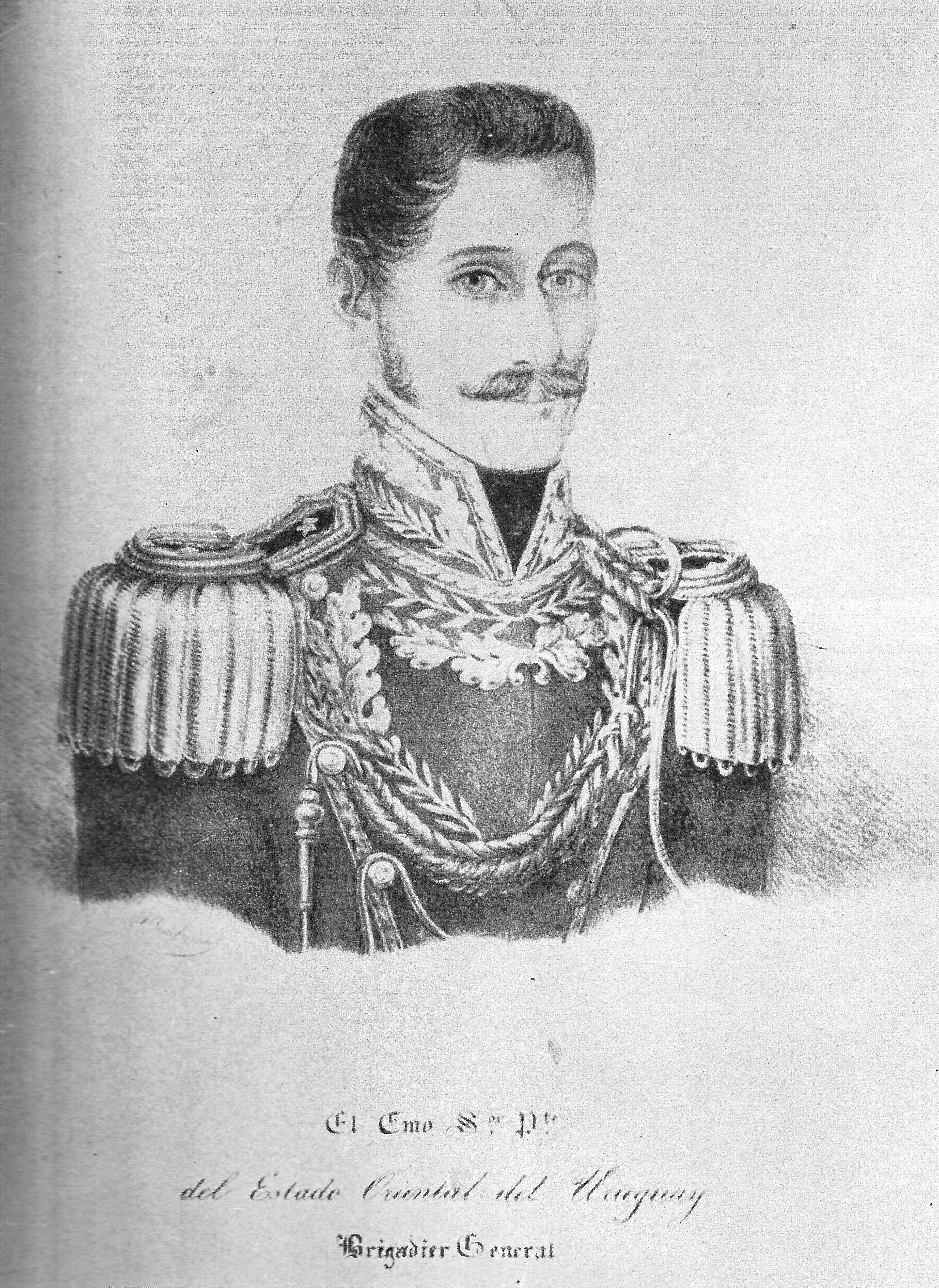 Drawing of Manuel Oribe, president of Uruguay and general of army of Argentina